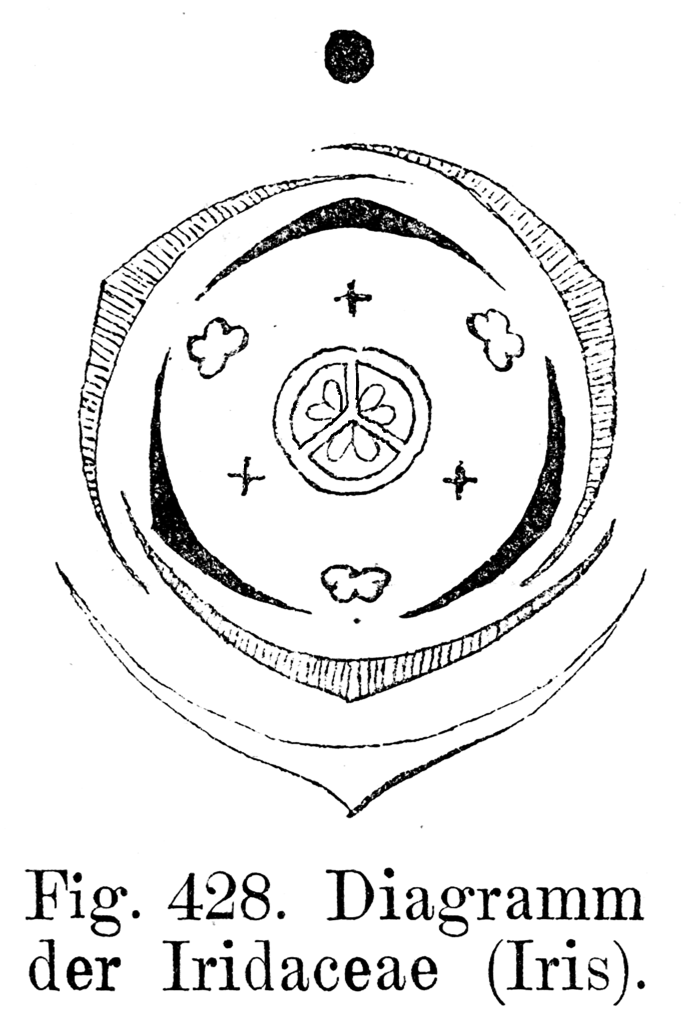 flower diagram of Iris